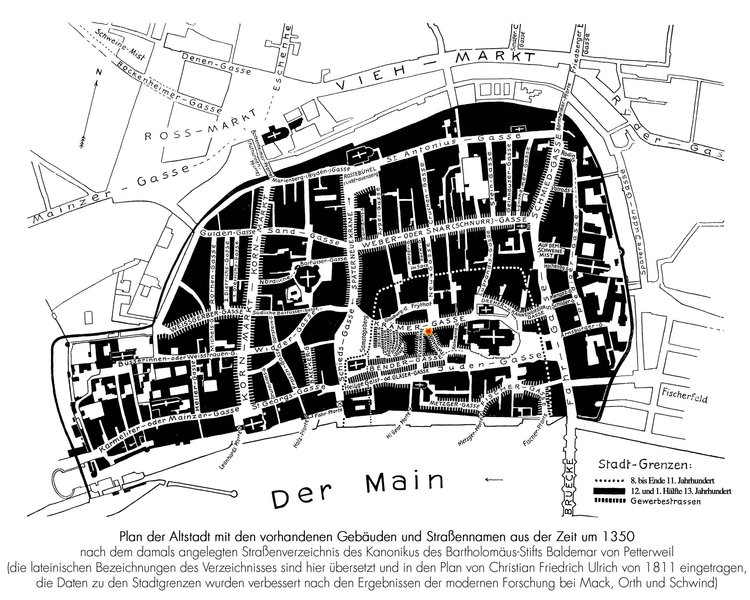 Frankfurt on the Main: Plan of the Altstadt (Old Town) with the buildings and street names present in the time around 1350 according to a street directory created by the canon of the Bartholomaeusstift (Bartholomew Monastery) Baldemar von Petterweil (Baldemar of Petterweil); the position of the Neues Rotes Haus am Markt (New Red House at the Marktet) is highlighted by a couloured star